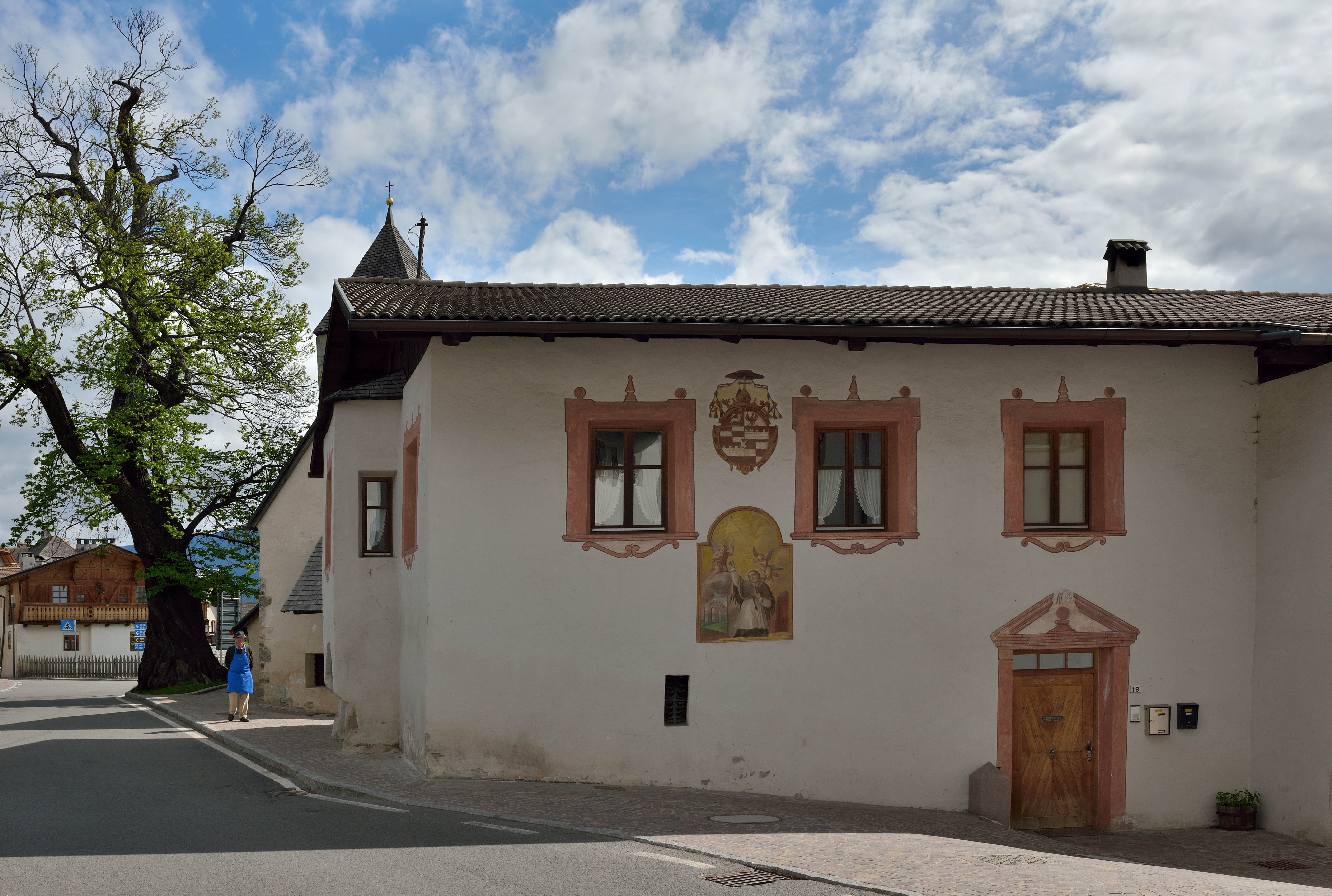 Primissarius house in Feldthurns in South Tyrol